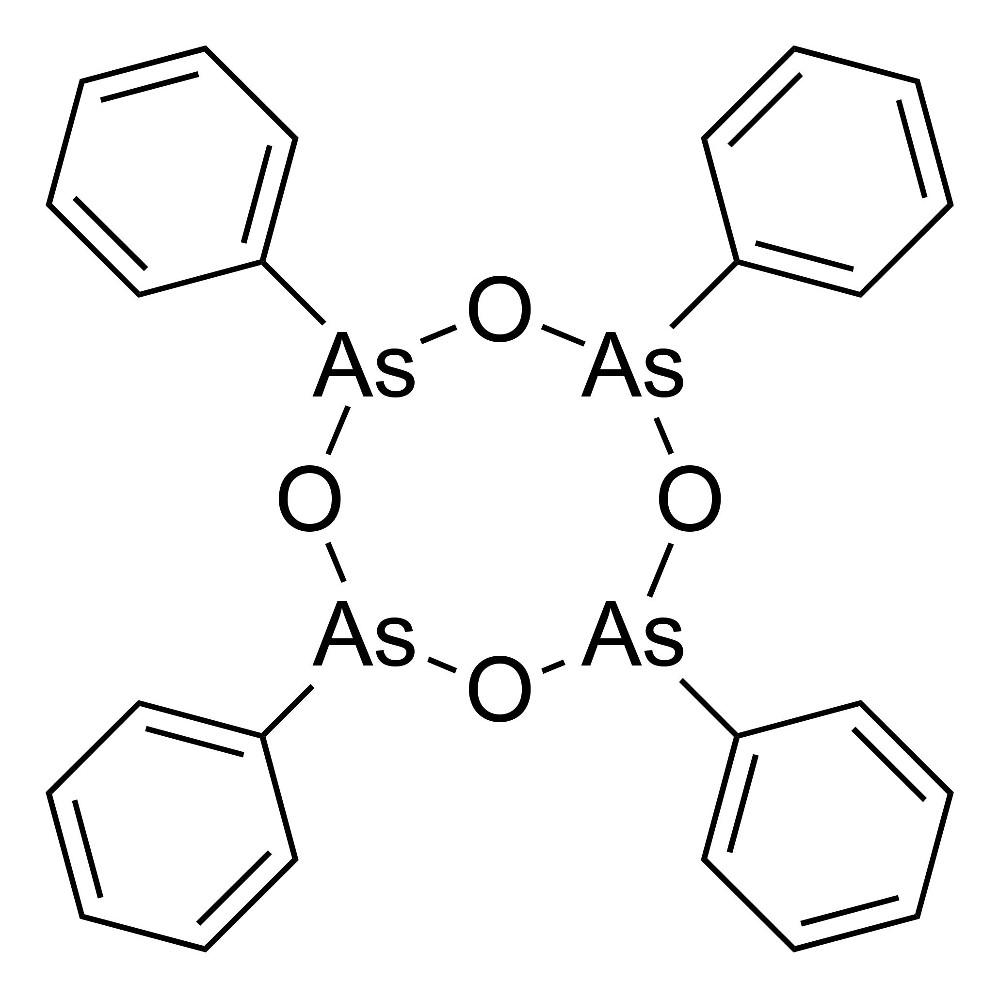 Diagram of the cyclic tetrameric solid-state structure of phenylarsine oxide, PhAsO, i.e. C6H5AsO. Based on the crystal structure reported in I. M. Müller, J. Mühle, Z. anorg. allg. Chem. 1999 625, 336-340. Image generated in ChemDraw Professional 15.0.